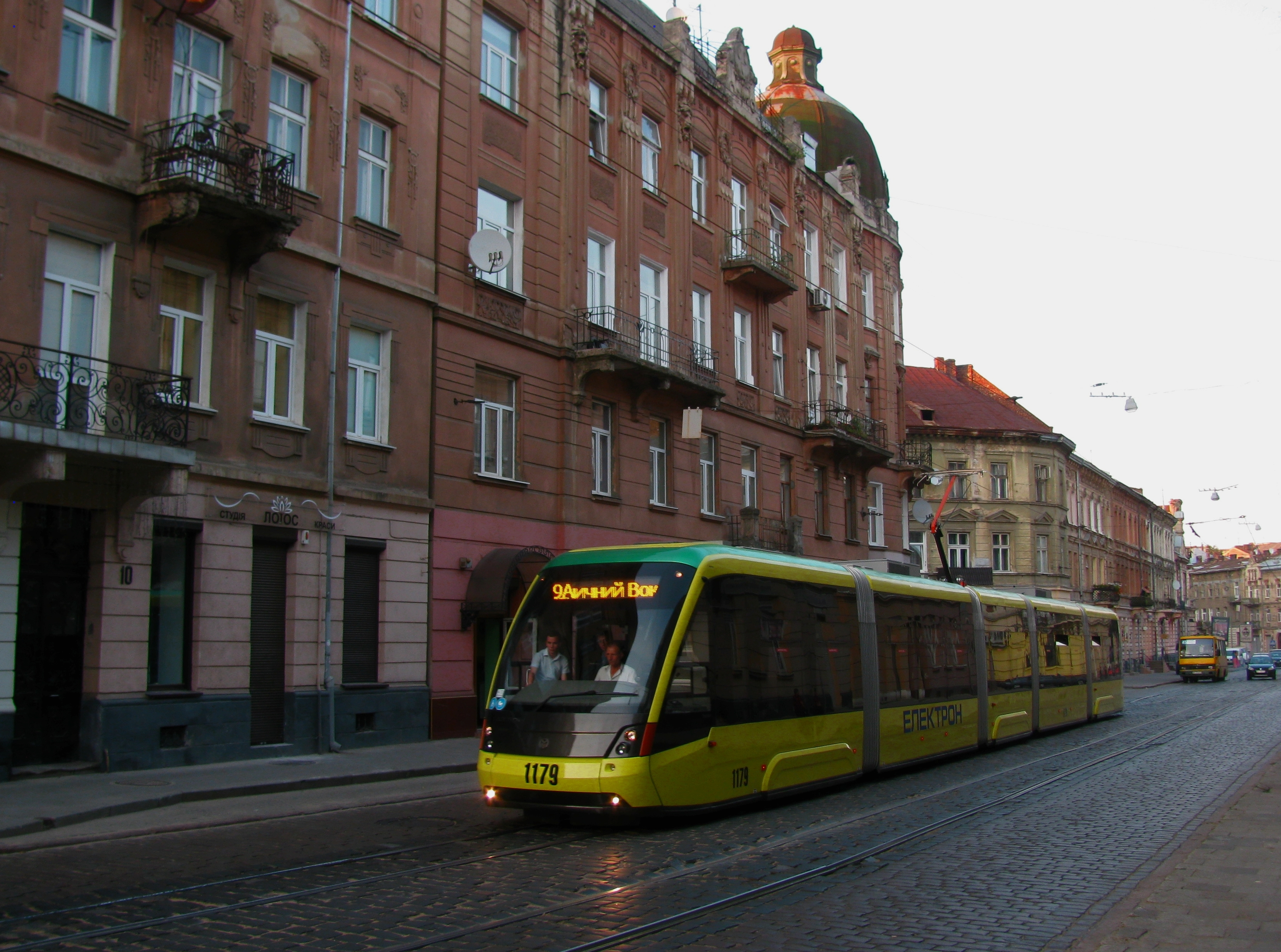 Tram Electron T5L64 on Vitovskoho Street in Lviv, Ukraine